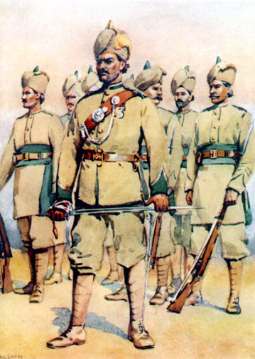 Punjabi Muslims of 33rd Punjabis (later, 3/16th Punjab, and now 15 Punjab, Pakistan Army). Watercolour by Major Alfred Crowdy Lovett, 1910. Published in MacMunn & Lovett, Armies of India, 1911.